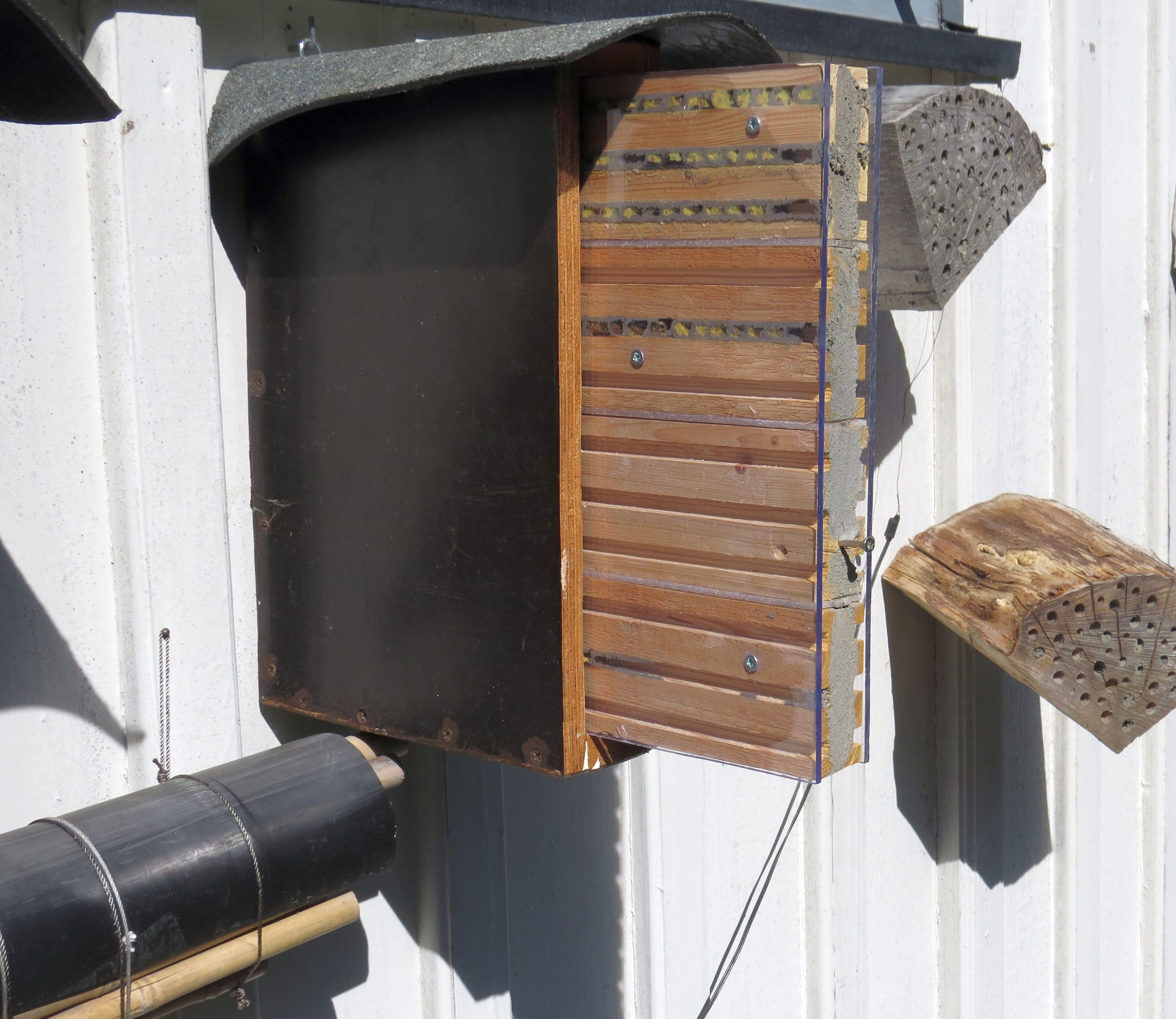 Simple houses for Potter Wasps and Solitary Bees, and their parasites